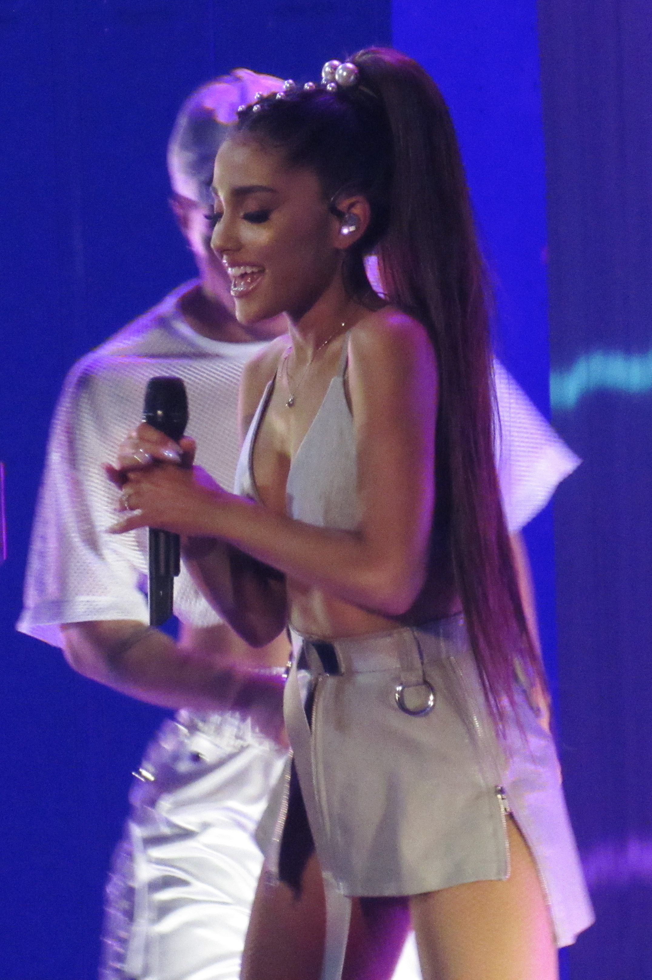 Dangerous Woman Tour 2/19/17 Ariana Grande performing during Dangerous Woman Tour in Manchester, New Hampshire, SNHU Arena, on February 19, 2017.